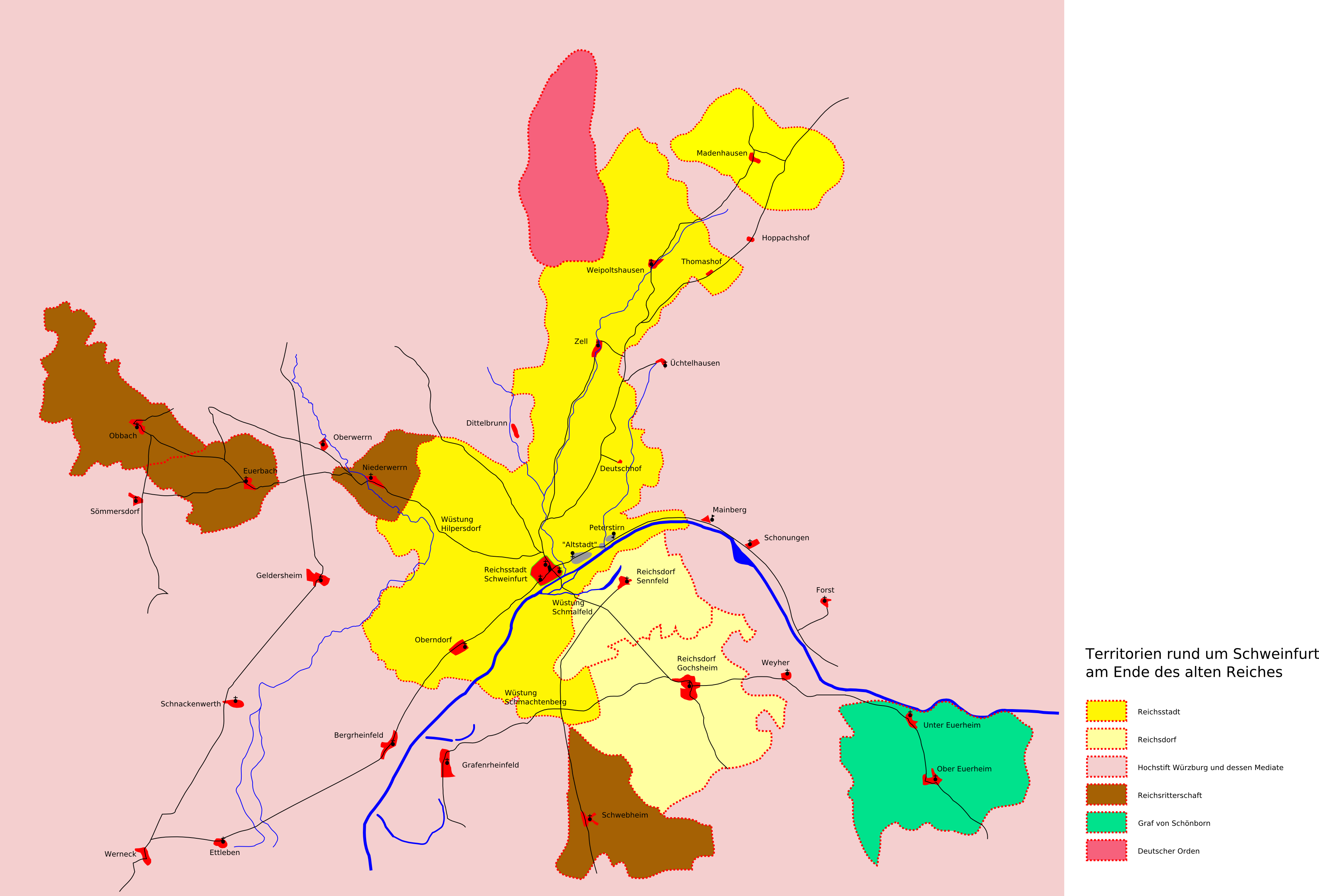 Territory of the imperial city of Schweinfurt (in yellow) at the end of the old empire.